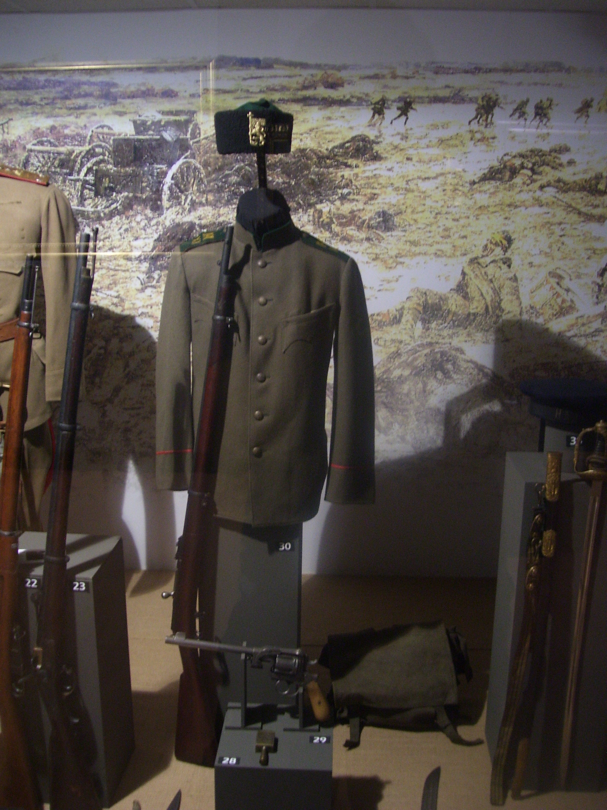 11 Ser Battalion Uniform and Stilian Kovachev's Revolver